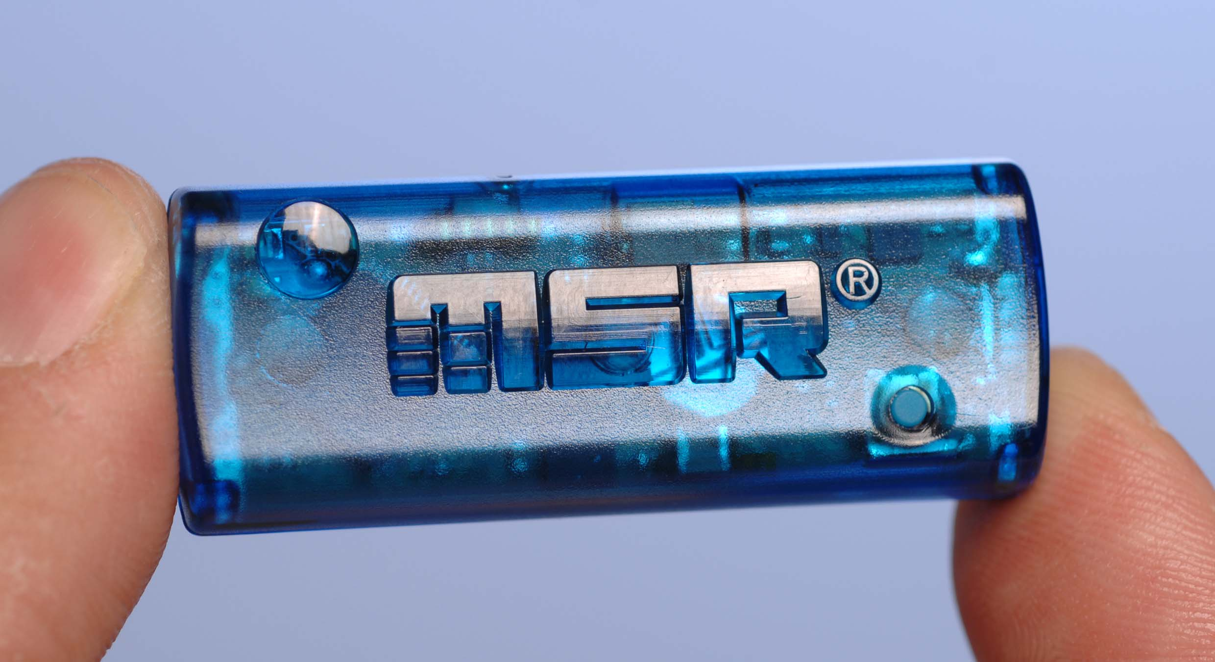 Datalogger (MSR145) with integrated sensors for acceleration, pression, humidity and temperature